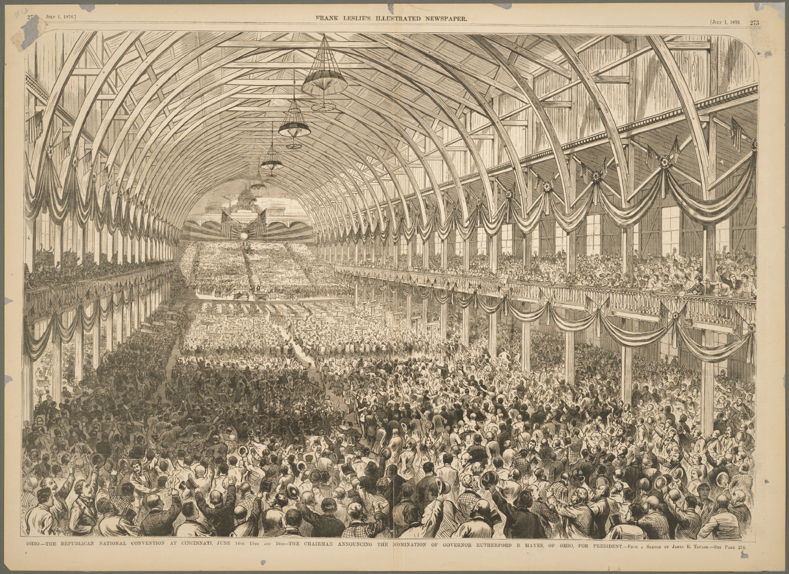 Collection: Cornell University Collection of Political Americana, Cornell University Library Repository: Susan H. Douglas Political Americana Collection, #2214 Rare & Manuscript Collections, Cornell University Library, Cornell University Title: Ohio - The Republican National Convention at Cincinnati Political Party: Republican Election Year: 1876 Date Made: 1876 Measurement: Sheet (unfolded): 16 x 22 in.; 40.64 x 55.88 cm Classification: Publications Persistent URI: There are no known U.S. copyright restrictions on this image. The digital file is owned by the Cornell University Library which is making it freely available with the request that, when possible, the Library be credited as its source.